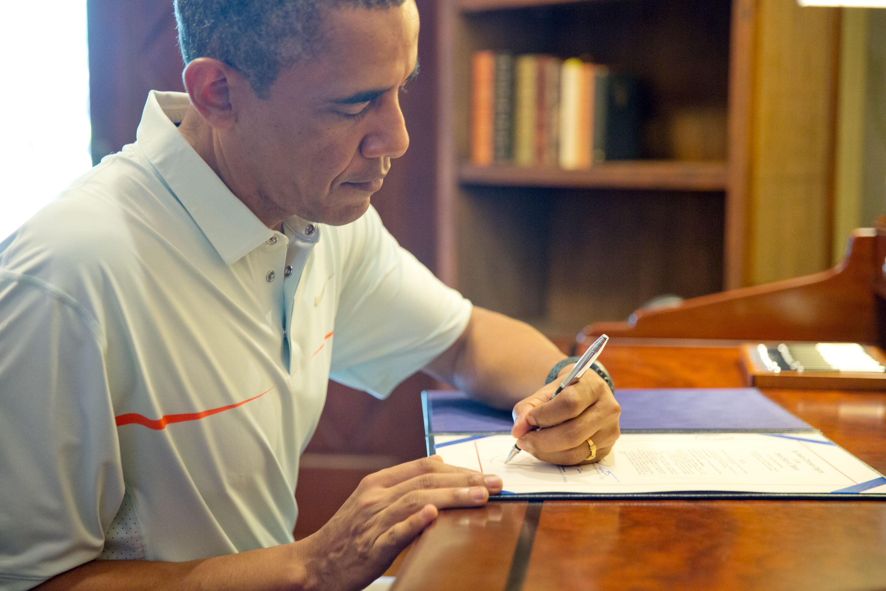 President Obama signing the Bipartisan Budget Act of 2013 on his Christmas vacation in Kailua, Hawaii.